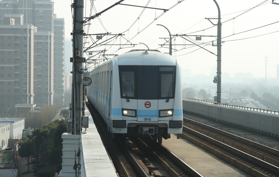 AC09 electric motor coach,produced by Bombardier-changchun car company. It's in its way to Songjiang University Town Station.